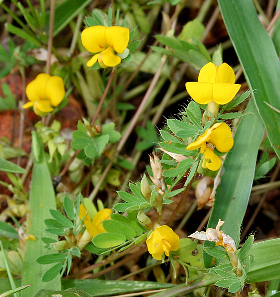 Smithia conferta Sm. (syn. Smithia geminiflora Roth) in Goa, India.